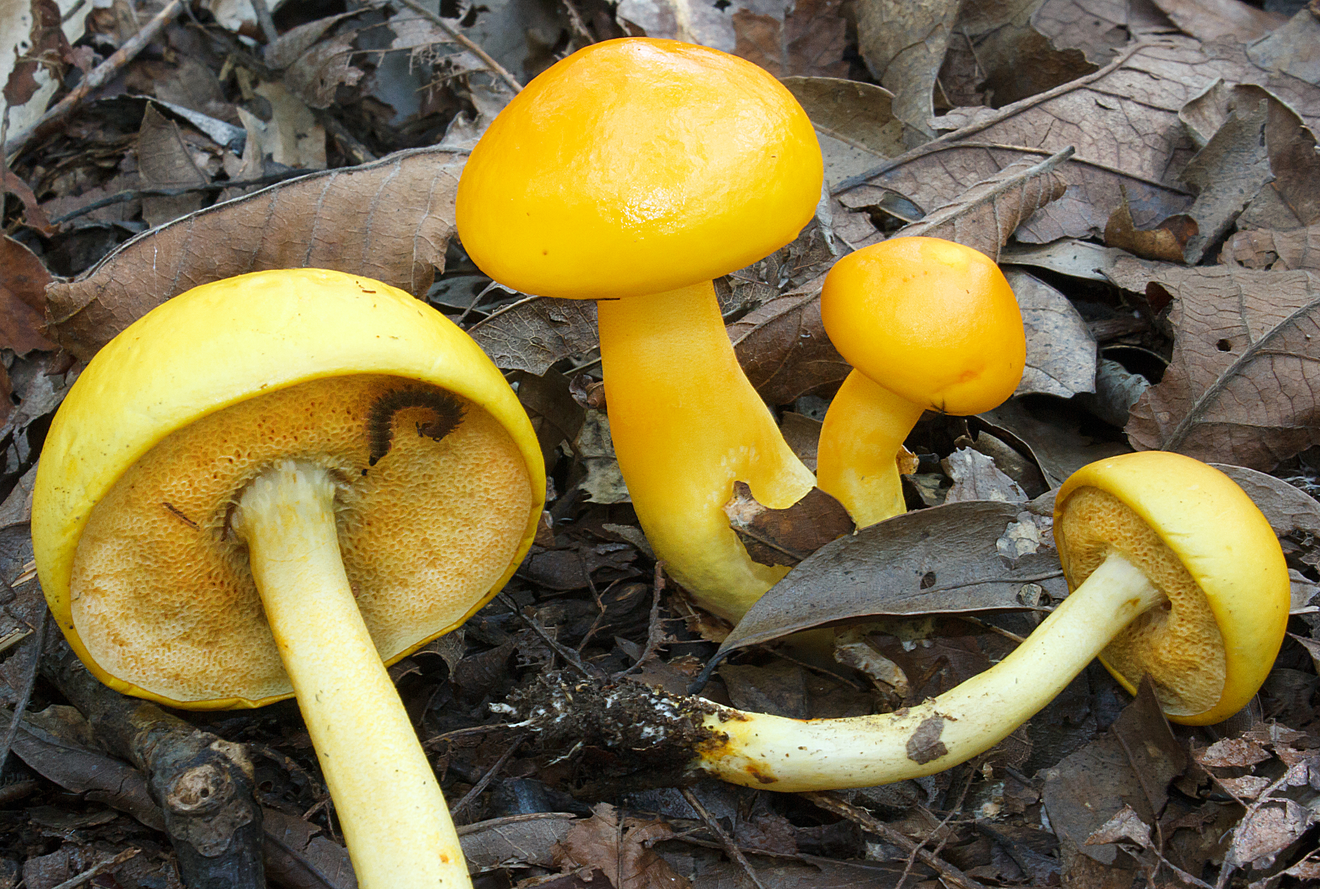 Pulveroboletus curtisii Image location: Orange Co., North Carolina, USA Recognized by sight For more information about this, see the observation page at Mushroom Observer.